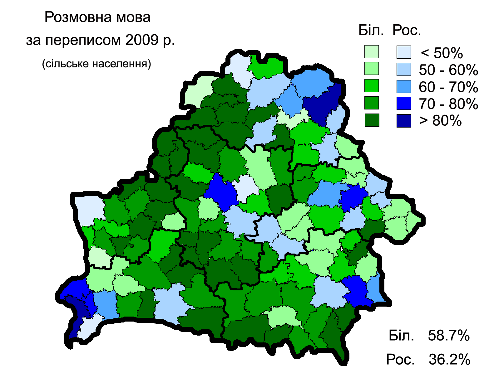 Languages spoken at home among rural population in Belarus according to the 2009 census